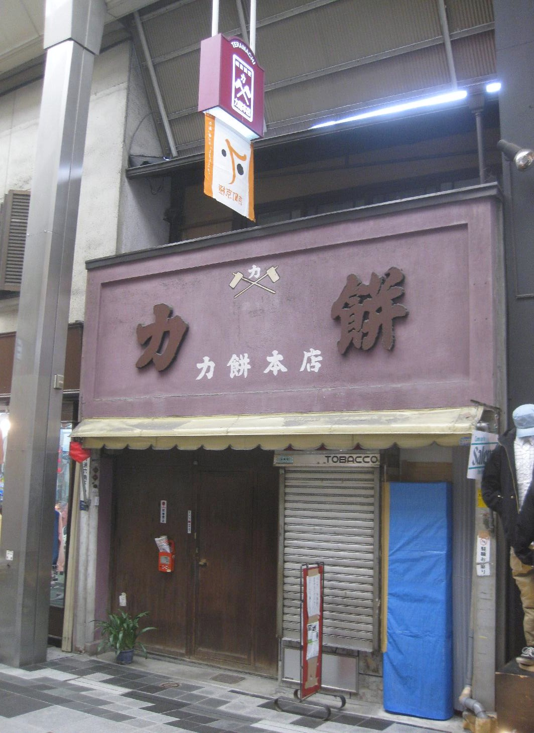 Chikaramochi-shokudo honten (Kyoto, Japan)